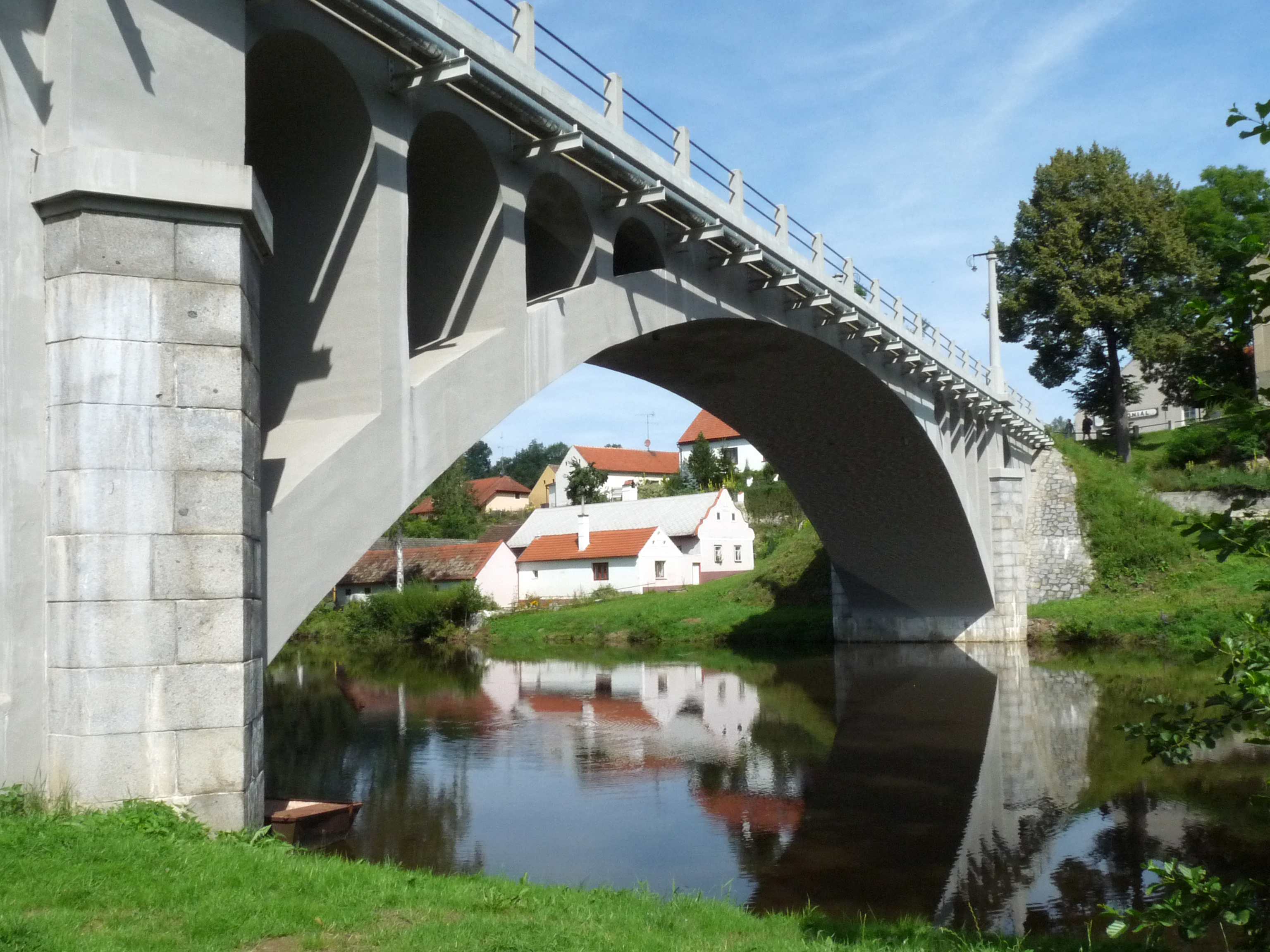 Čapkův Bridge in Straňany (part of Doudleby), České Budějovice district, Czech Republic as seen from Straňany towards house No 13, Doudleby